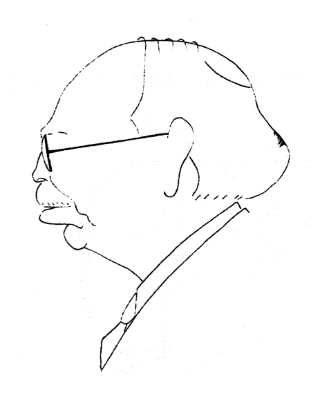 Eugen Bădărău (1887-1975), Romanian physicistDrawing by Gheorghe Manu (1903-1961), Romanian physicist